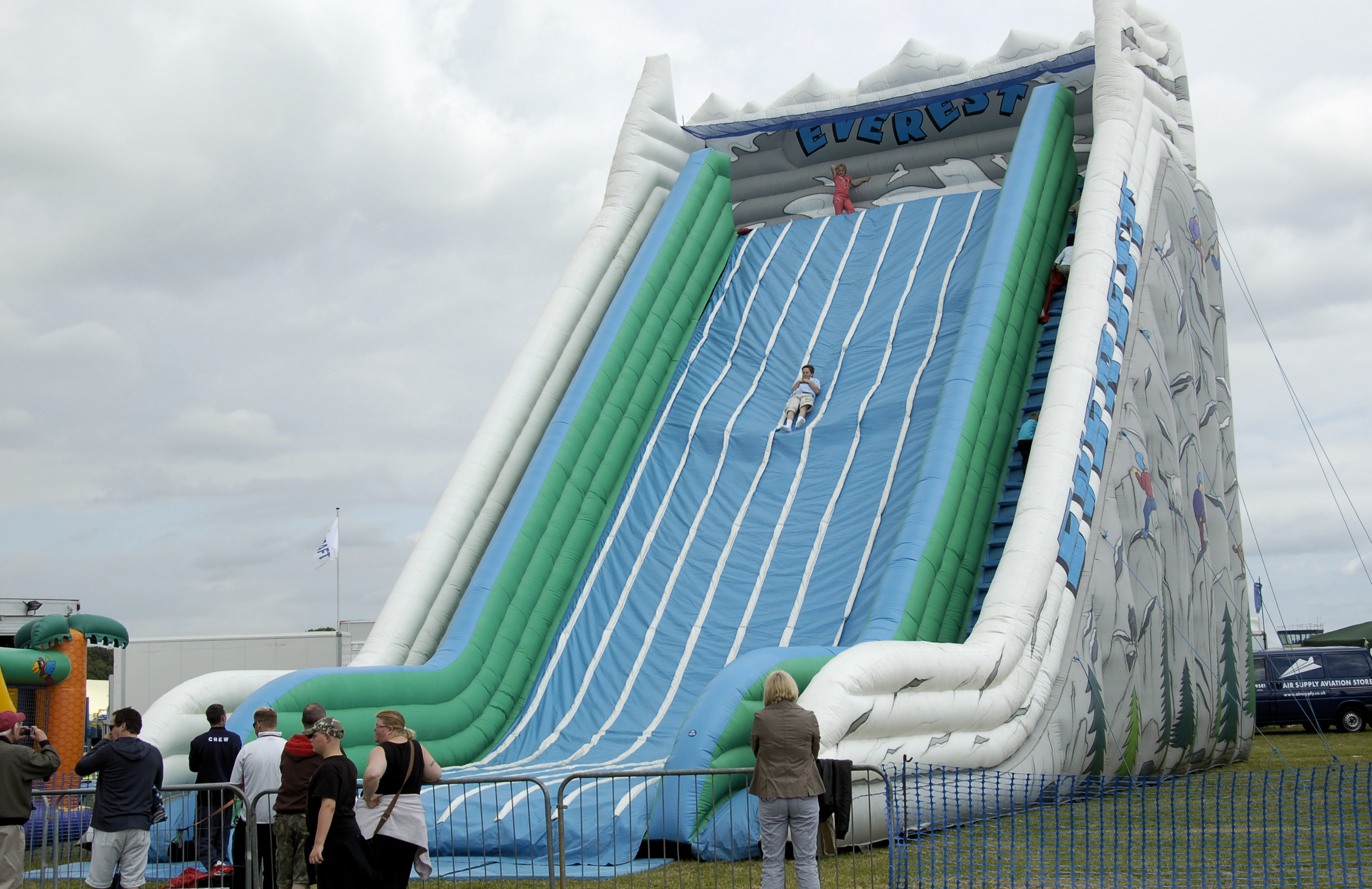 Inflatable slide at Kemble Air Day 2008, Kemble Airport, Gloucestershire, England. Notice the two children climbing the very steep access stairs on the right.